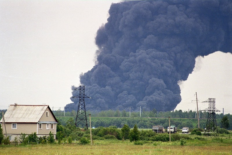 Fire of waste storage at Krasny Bor, 2014